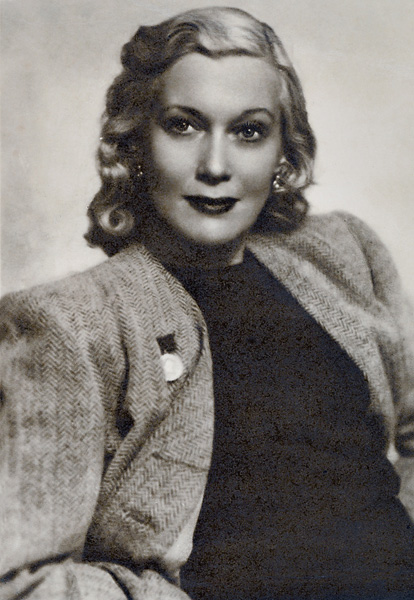 Lyubov Orlova in 1945 showing off her USSR State Prize (badge)